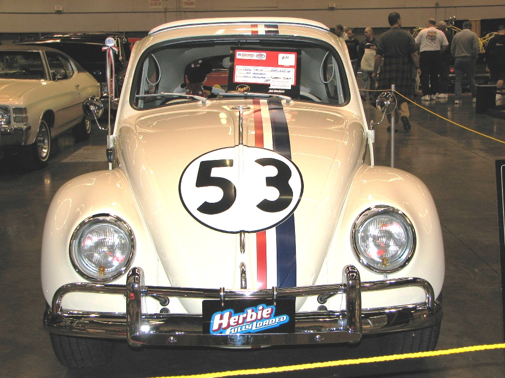 Picture made at a carshow in Portland, march 2006